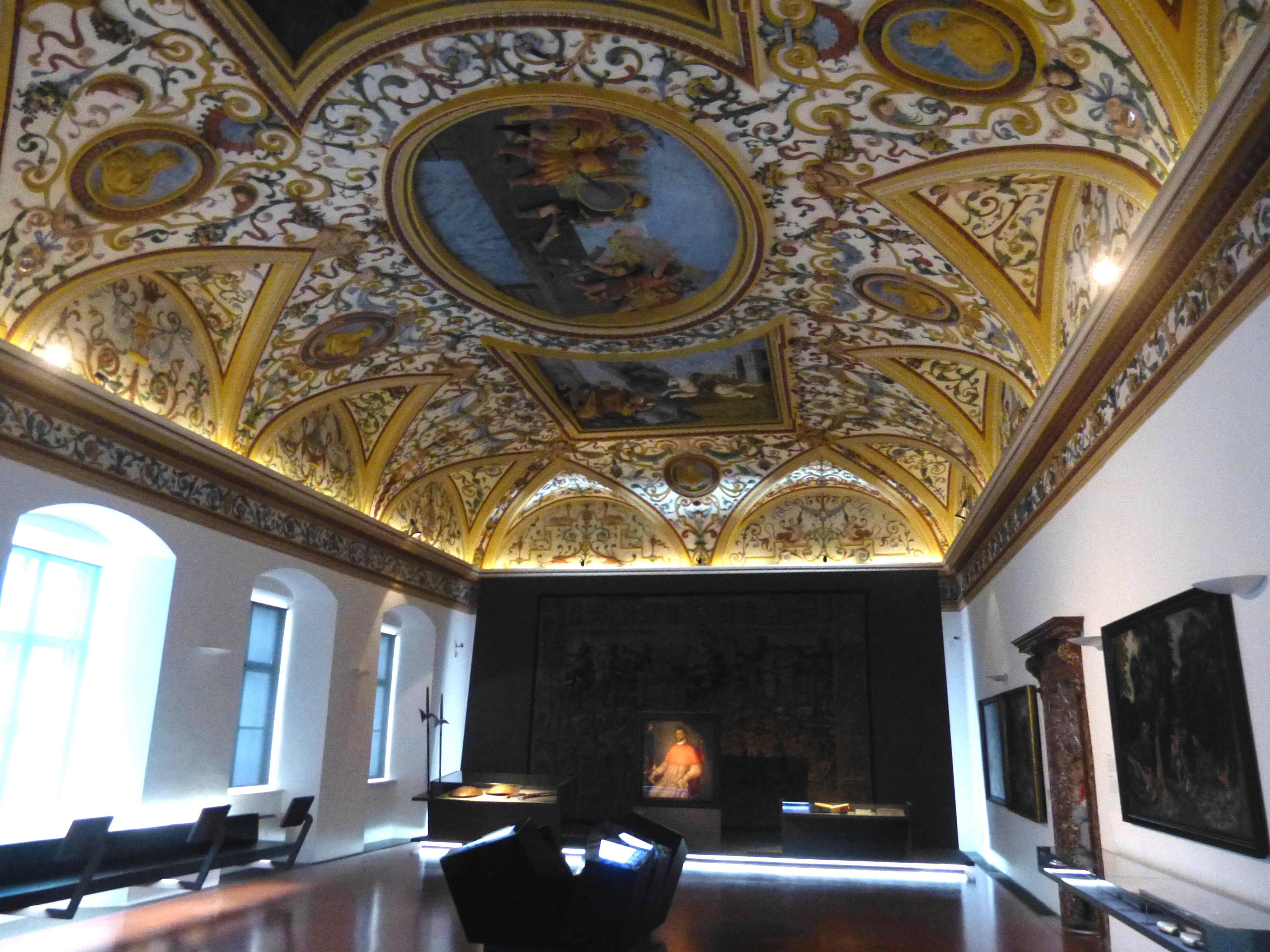 Salzburg city ( Austria ). New Residence - Hall of the Secret Consistory ( 1602 ).